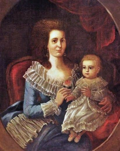 Senora de Balderes and Her Daughter, Spanish colonial New Orleans, c. 1790. The family lived on Royal Street in what is now called the "French Quarter.